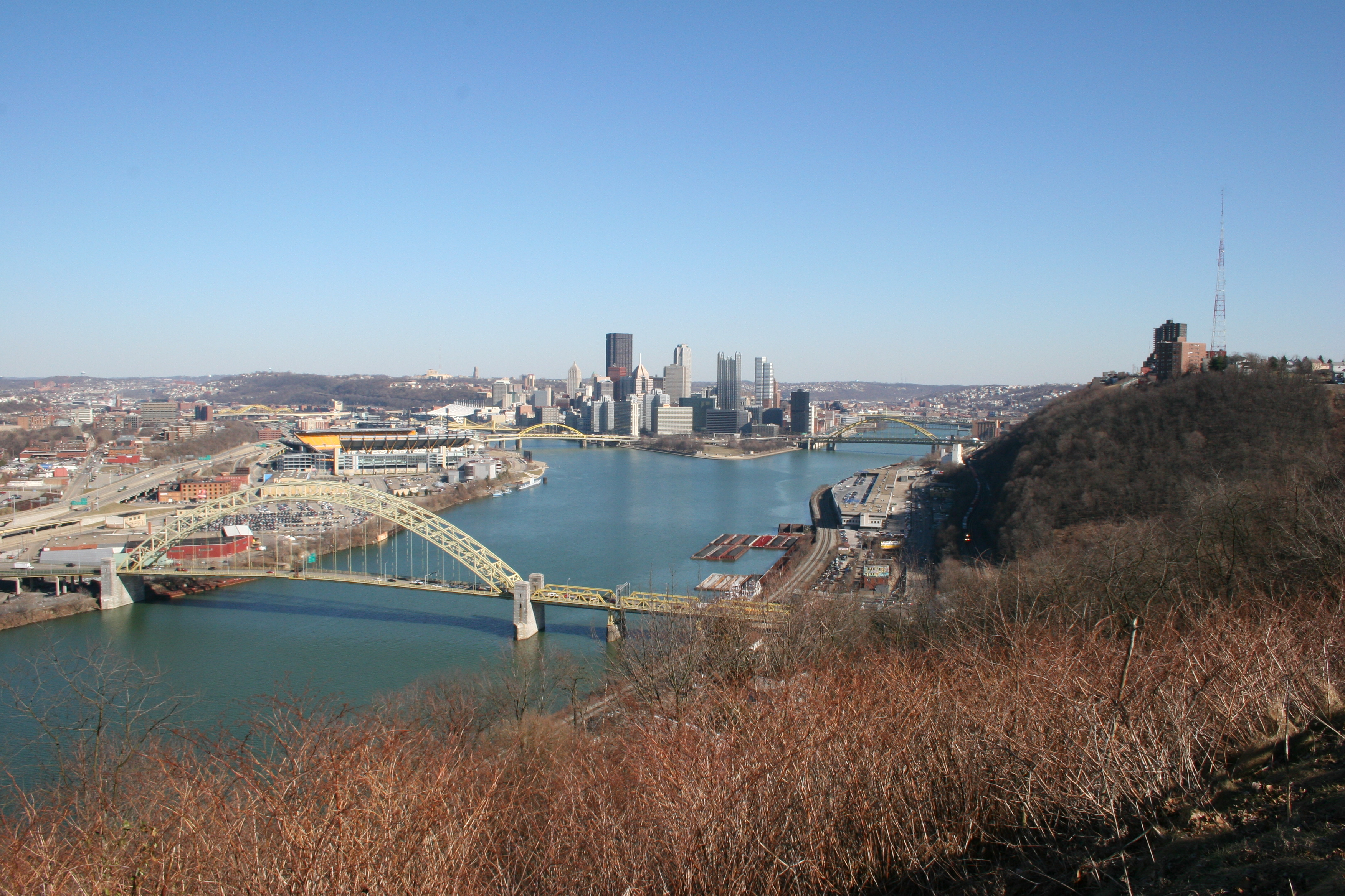 Pittsburgh skyline from West End Overlook, afternoon.